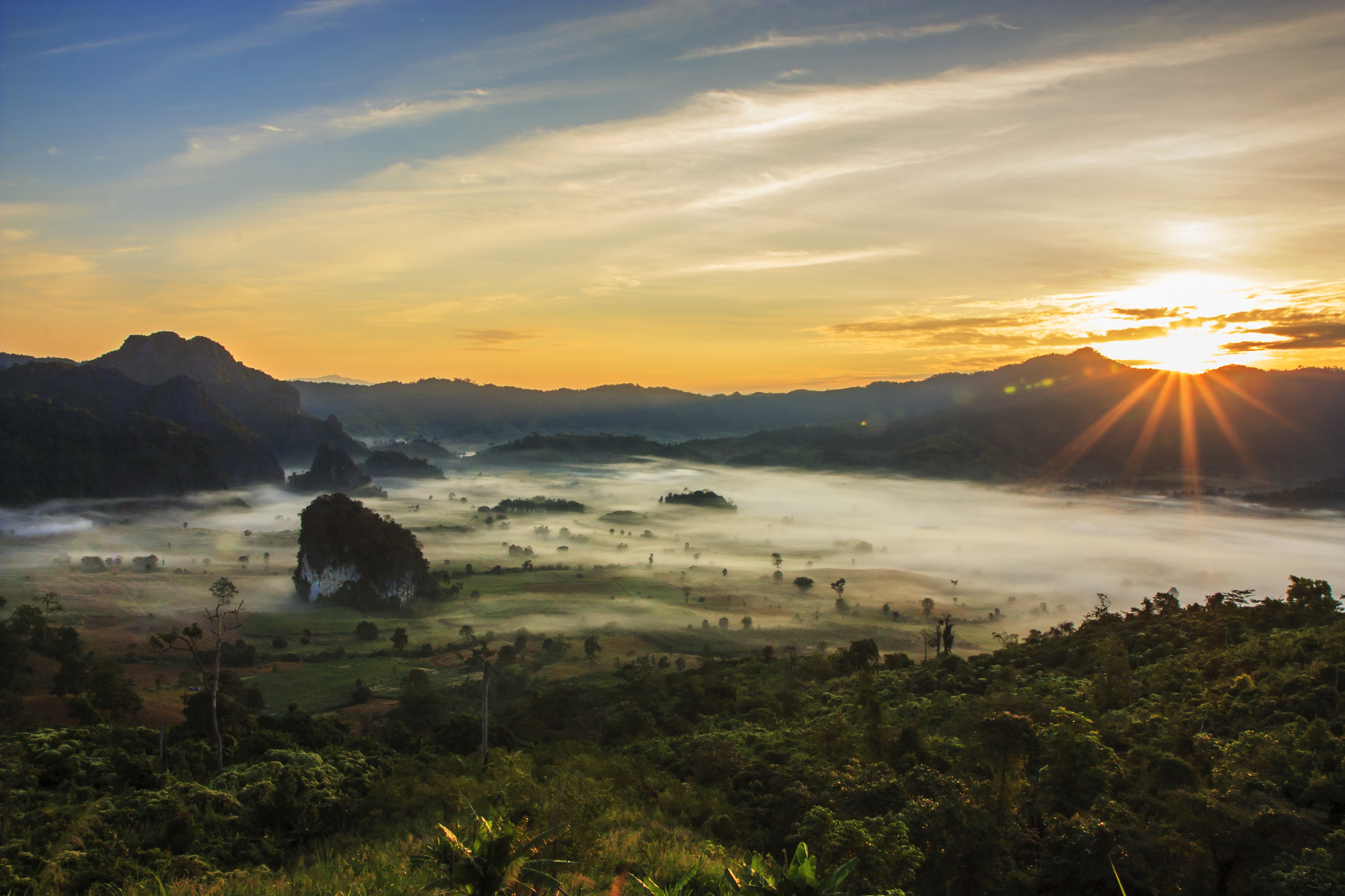 Sunrise and morning fog at Phu Langka, Tham Sakoen National Park, Phayao Province